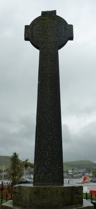 Campbeltown Cross, Campbeltown, Scotland - back side